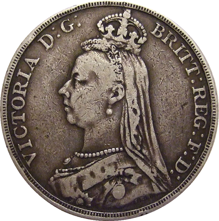 Obverse of the 1890 British crown.